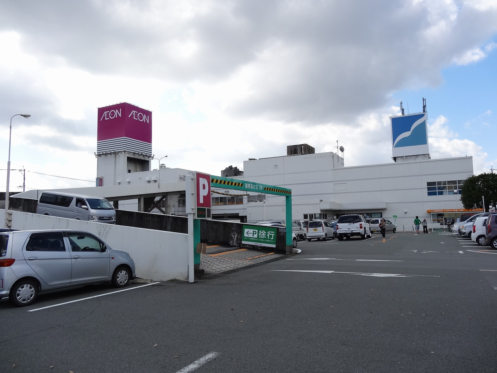 Ozu Shopping Plaza - Aeon Group (Ozu Town, Kumamoto, Japan)